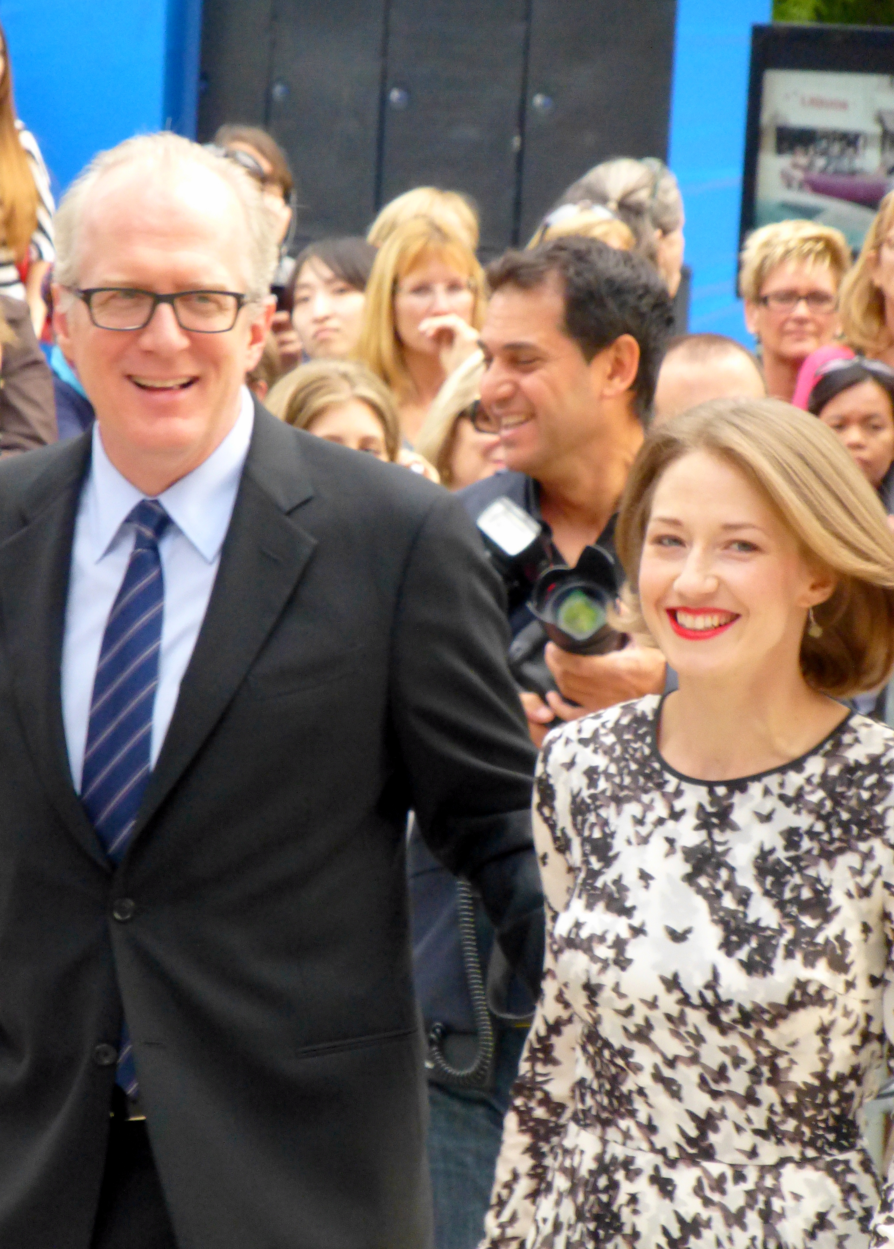 Tracy Letts and Carrie Coon at the premiere of August: Osage County, Toronto Film Festival 2013